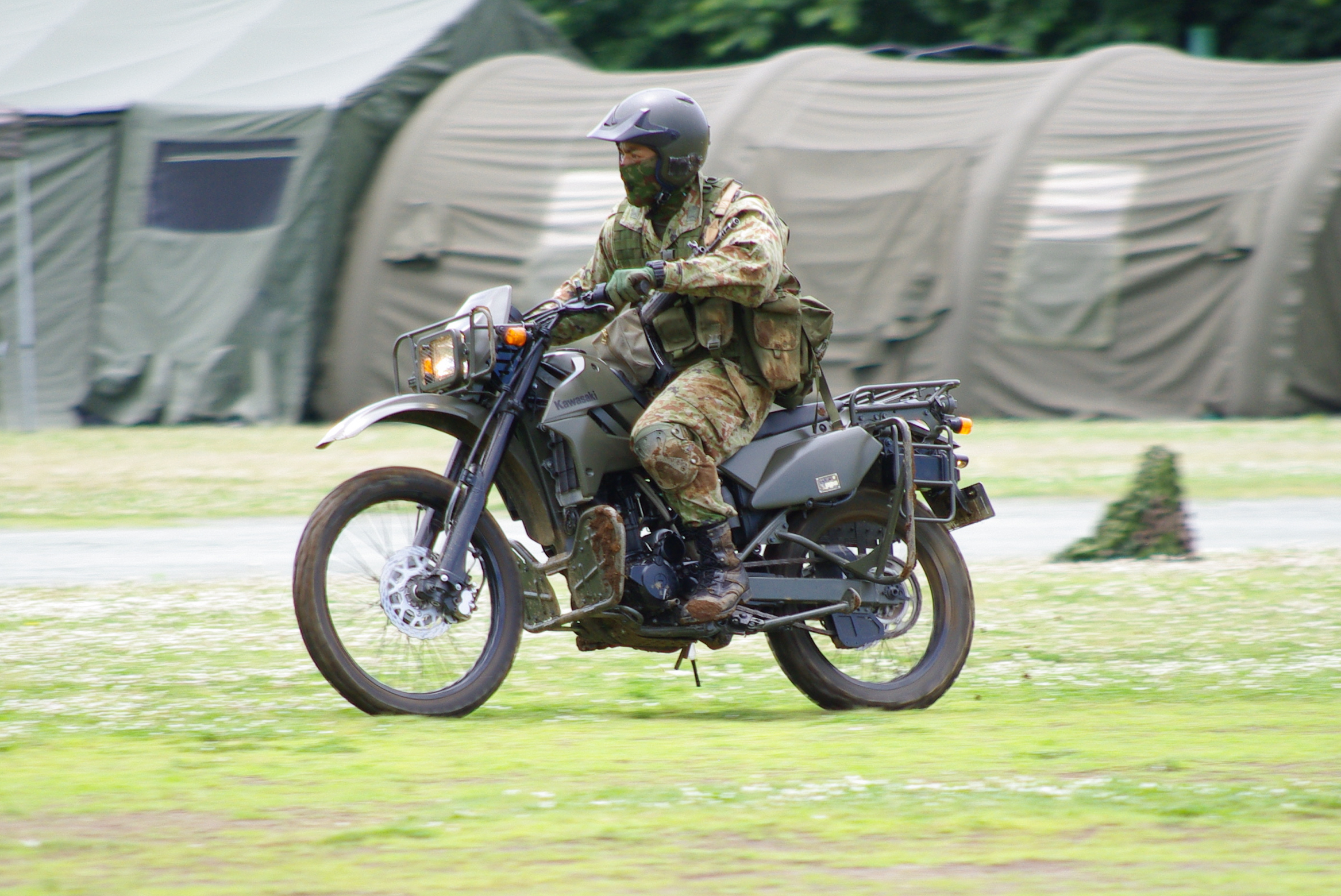 JGSDF reconnaissance motorcycle (Kawasaki KLX250),32nd Infantry Regiment.Taken by Los688,in Camp Omiya,Japan,at 10-Jun-2012.PD-self Ja:陸上自衛隊 偵察用オートバイ（カワサキKLX250）。2012年06月10日、大宮駐屯地で撮影。第32普通科連隊。